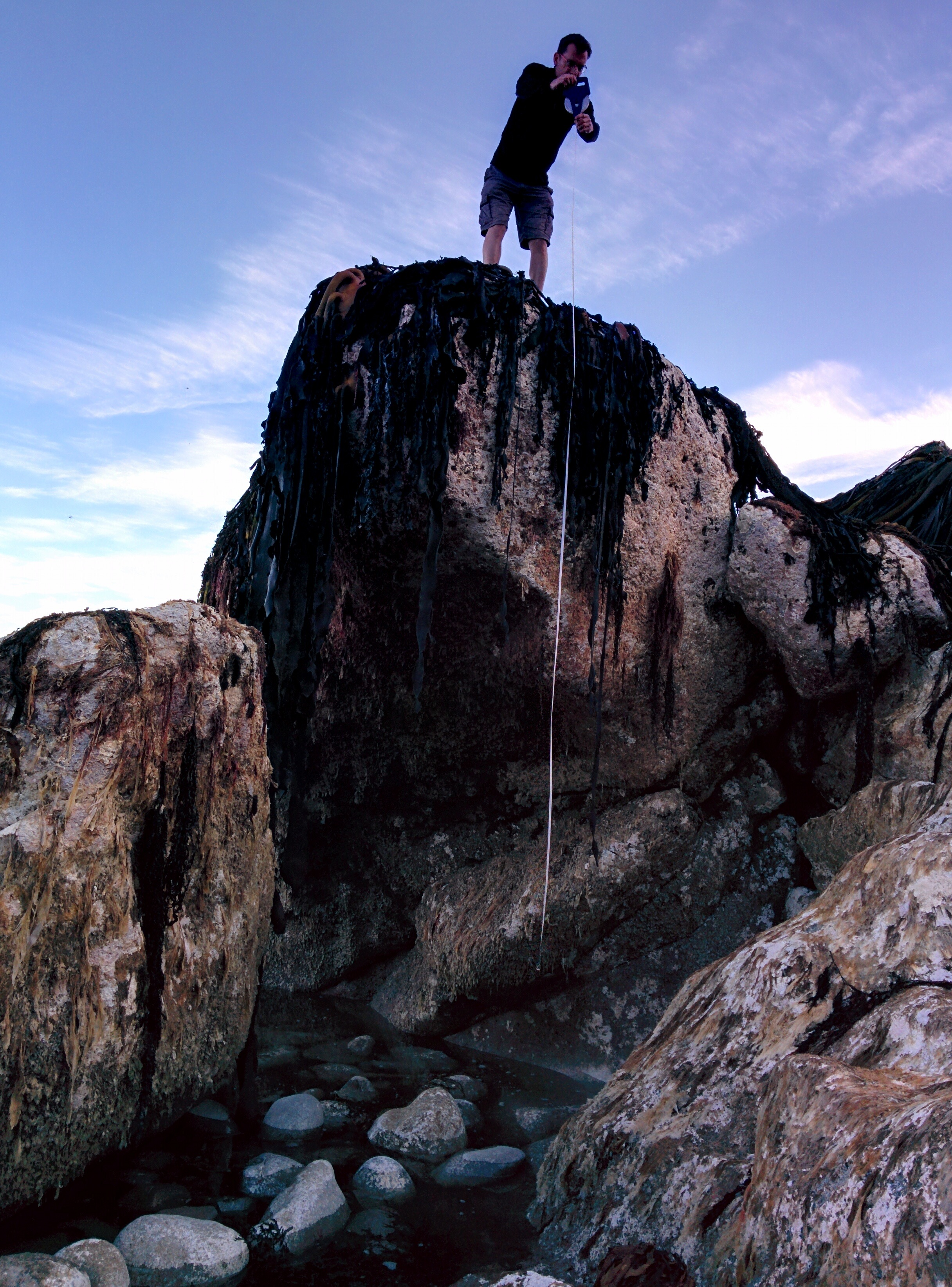 Professor Jon Waters measuring the scale of earthquake uplift along the coast of Kaikōura, following the 2016 Kaikōura earthquake, with the Durvillaea kelp die off shown